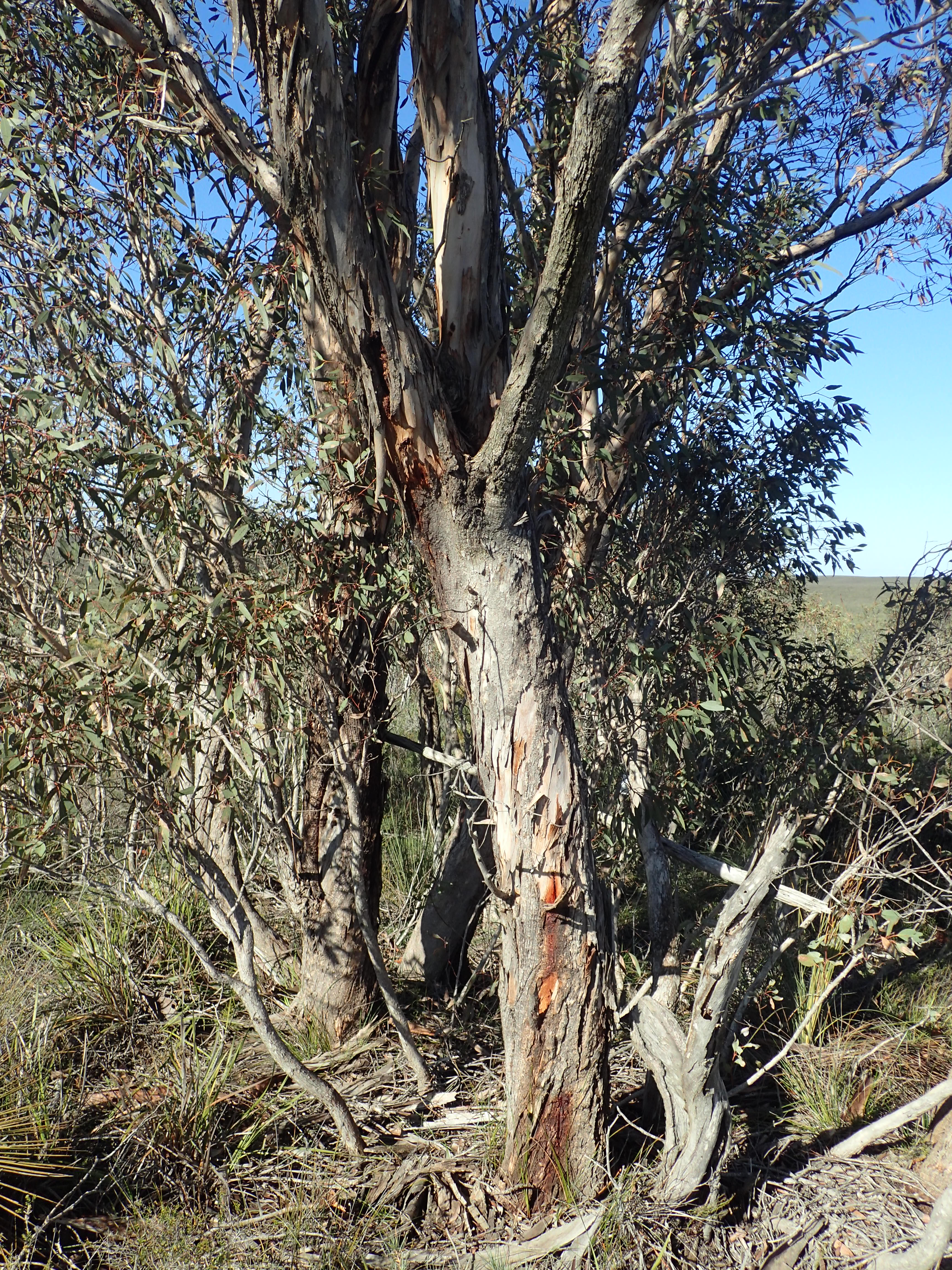 'Eucalyptus × balanites bark near Badgingarra